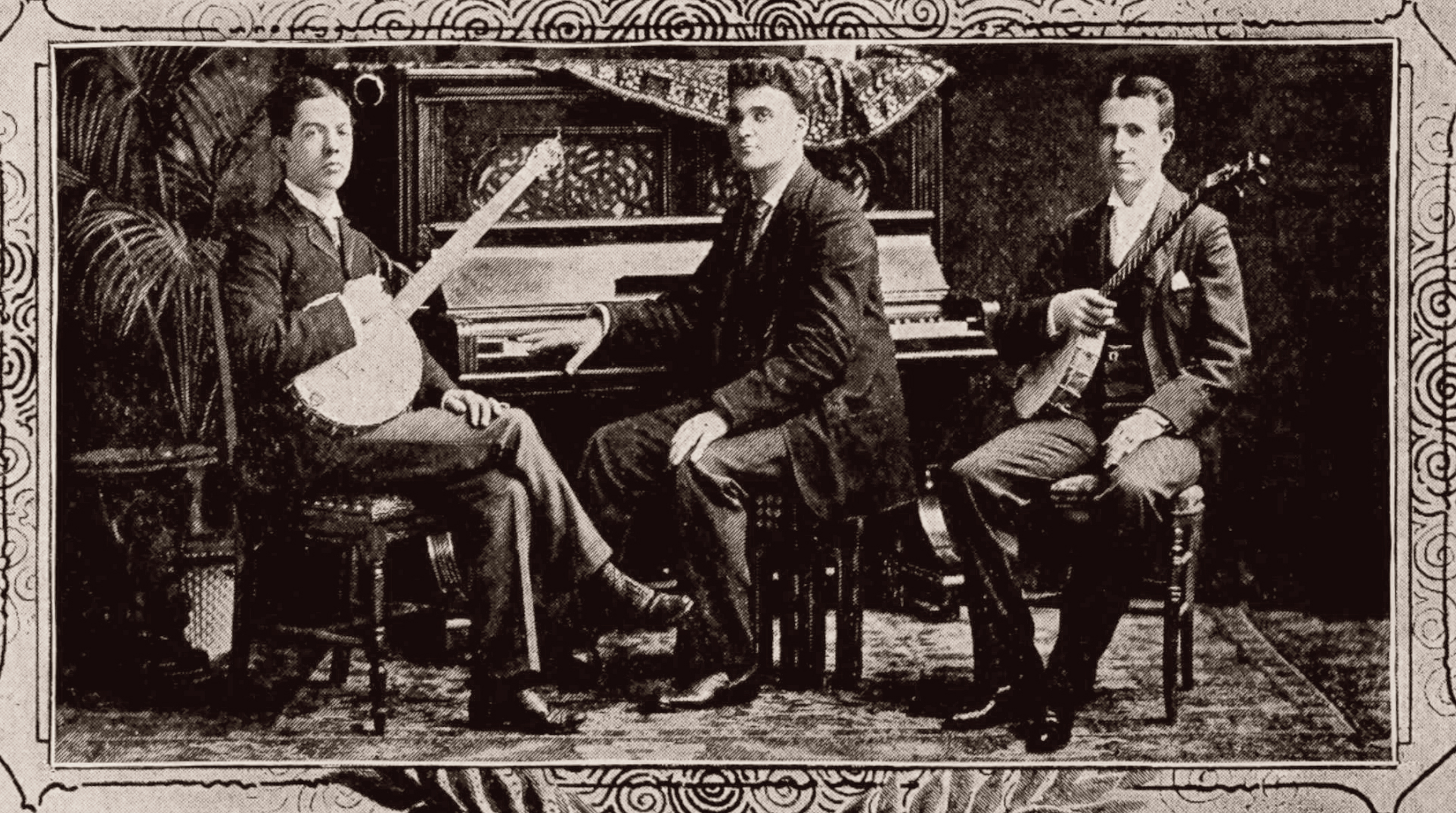 Banjoists Ruby Brooks and Harry Denton with piano accompanist J. Alex. Silberberg.